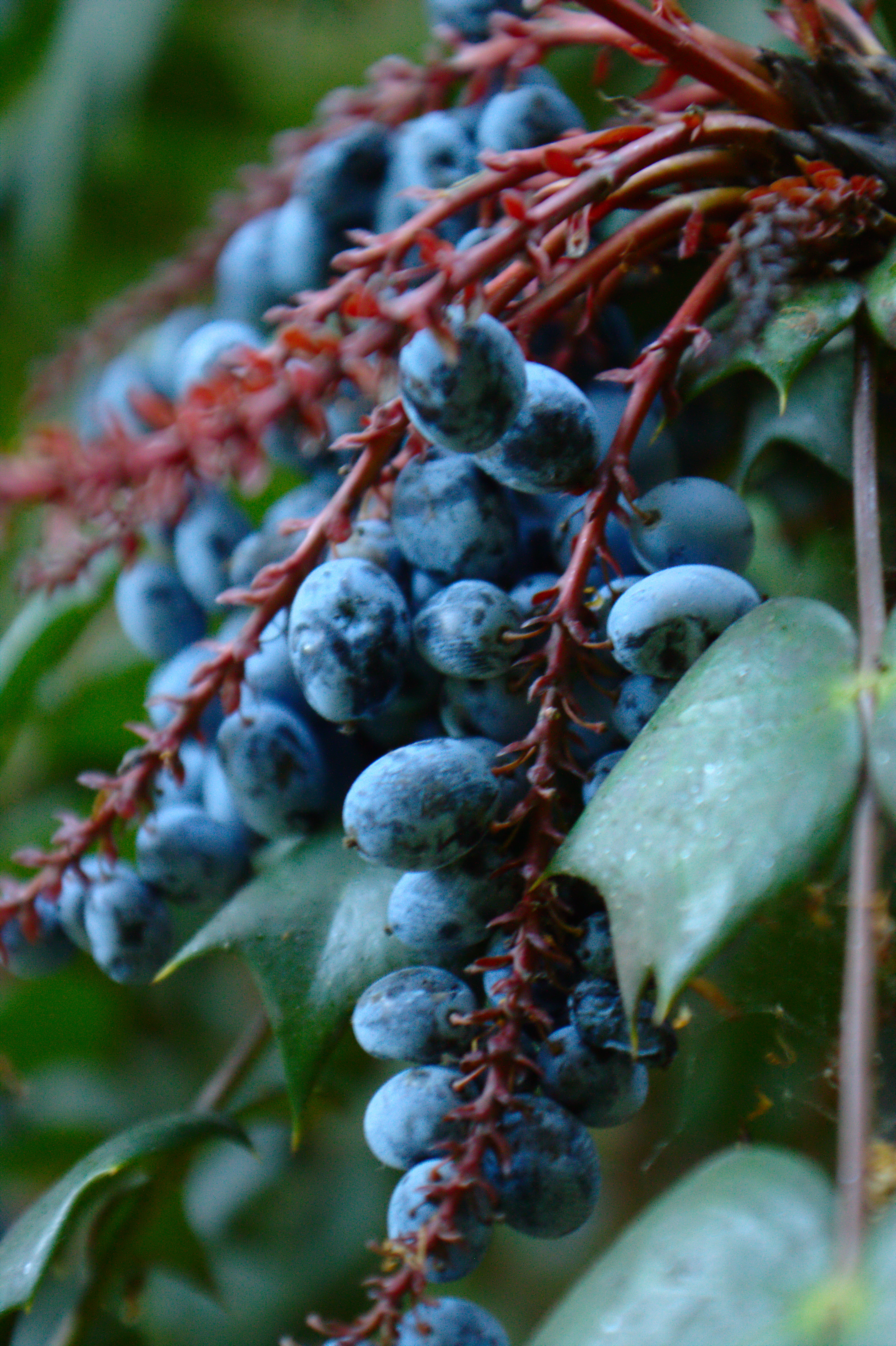 Original form of Mahonia Japonica, Wojsławice Arboretum, Lower Silesian Voivodeship, Poland